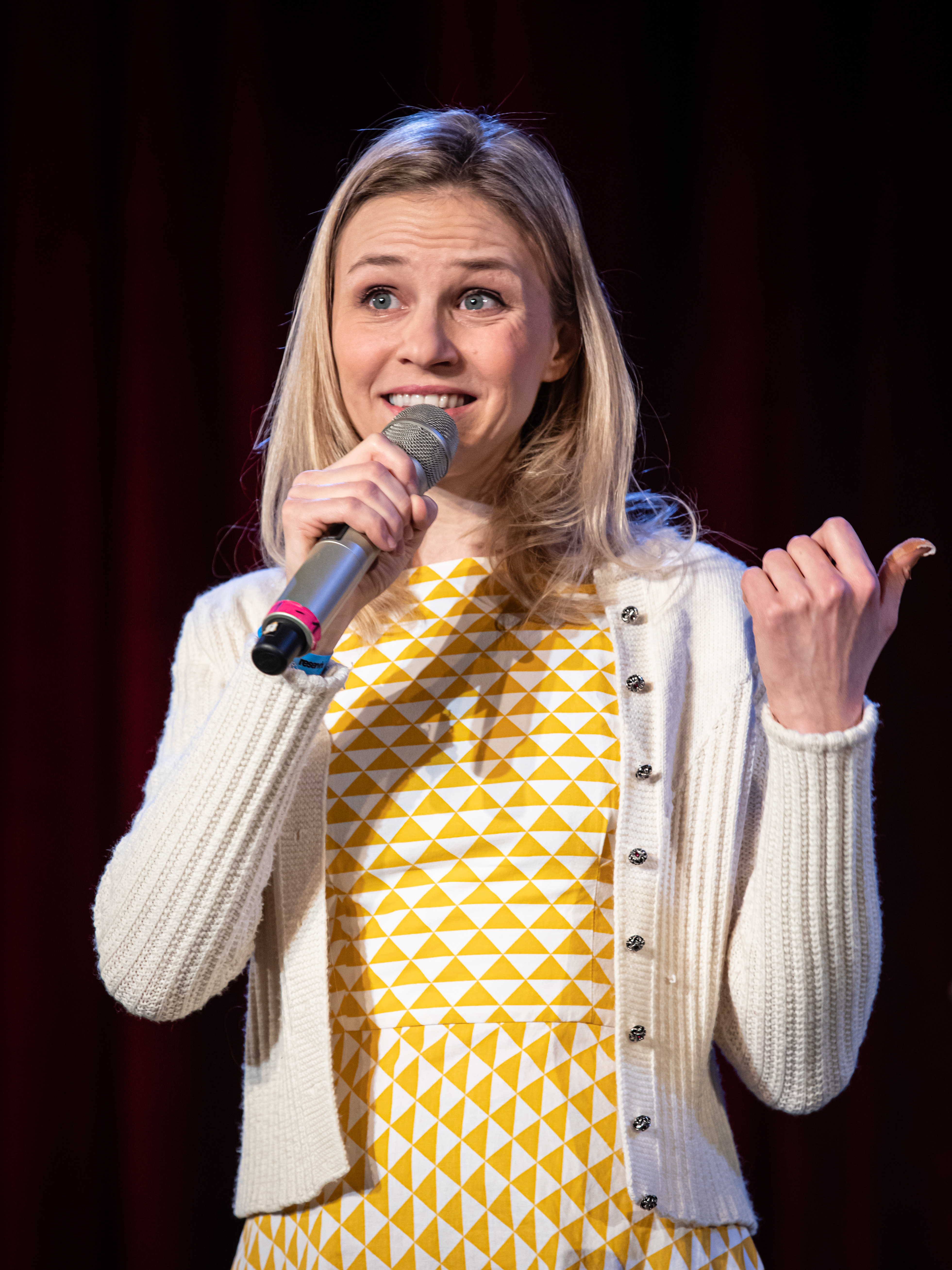 Actress Teresa Rizos at the Kulturbörse Freiburg 2019